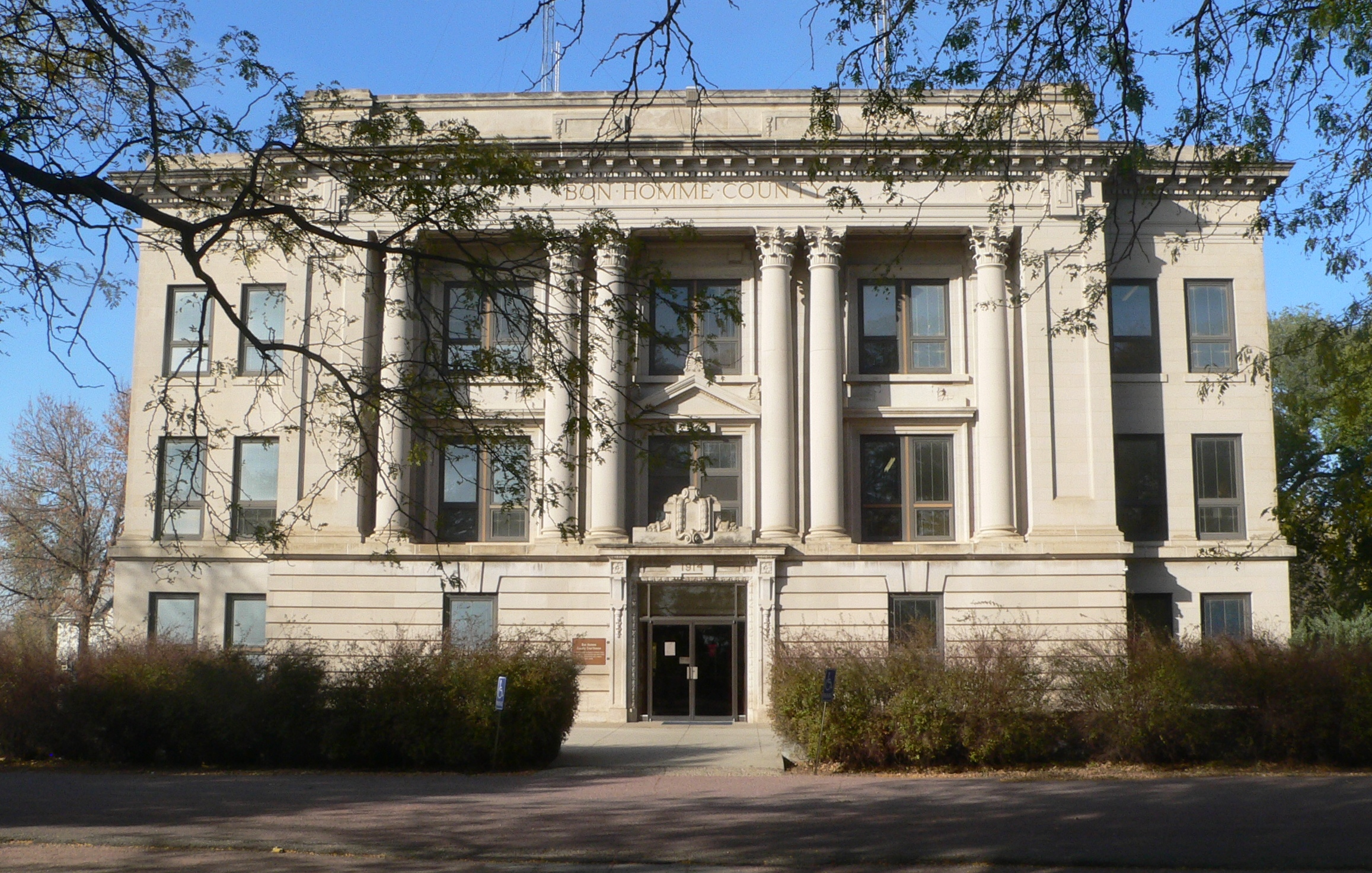 Bon Homme County courthouse, located on north side of 18th Avenue between Holly and Ivy Streets in Tyndall, South Dakota; seen from the south.